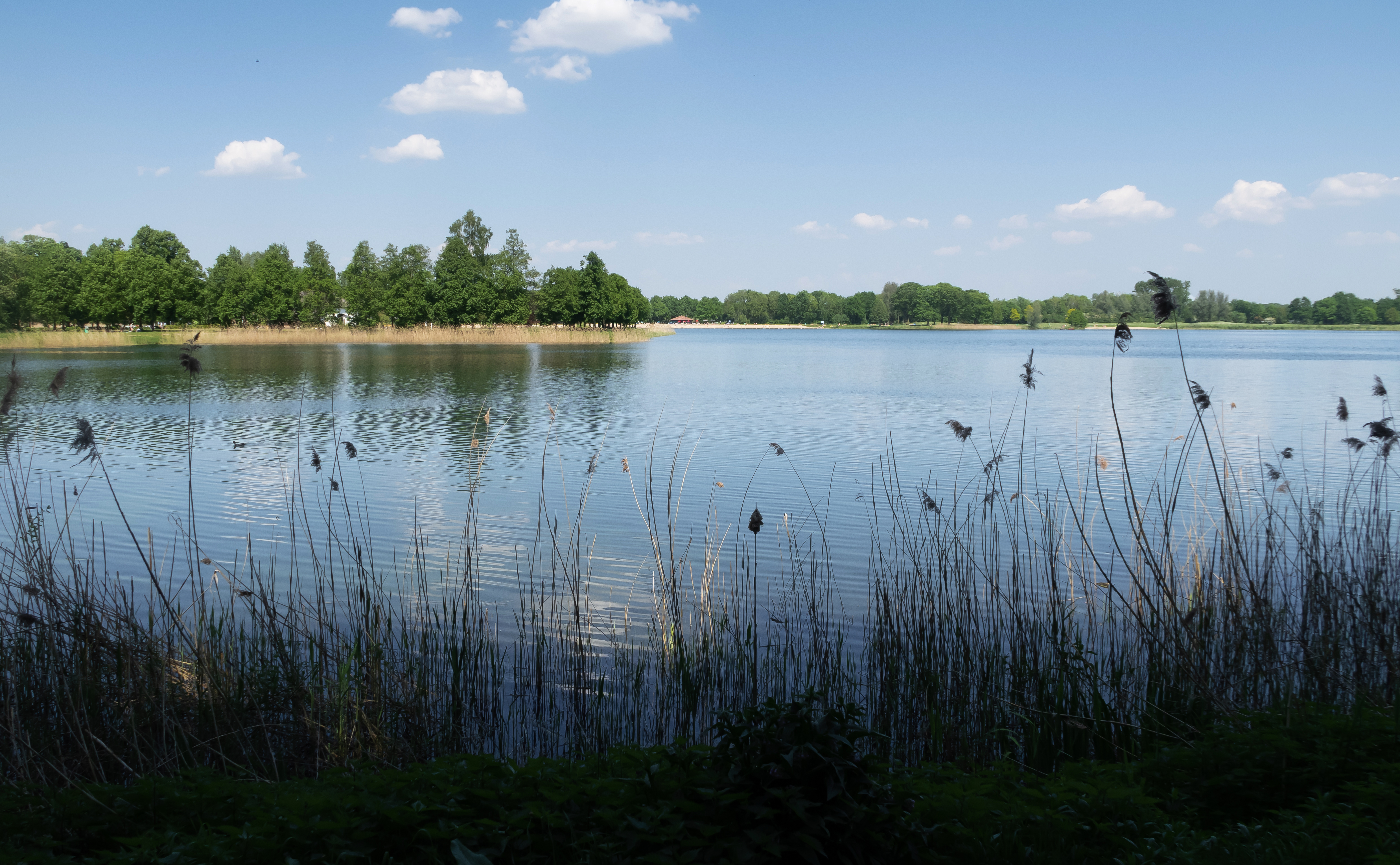 Bussloo, bathing lake